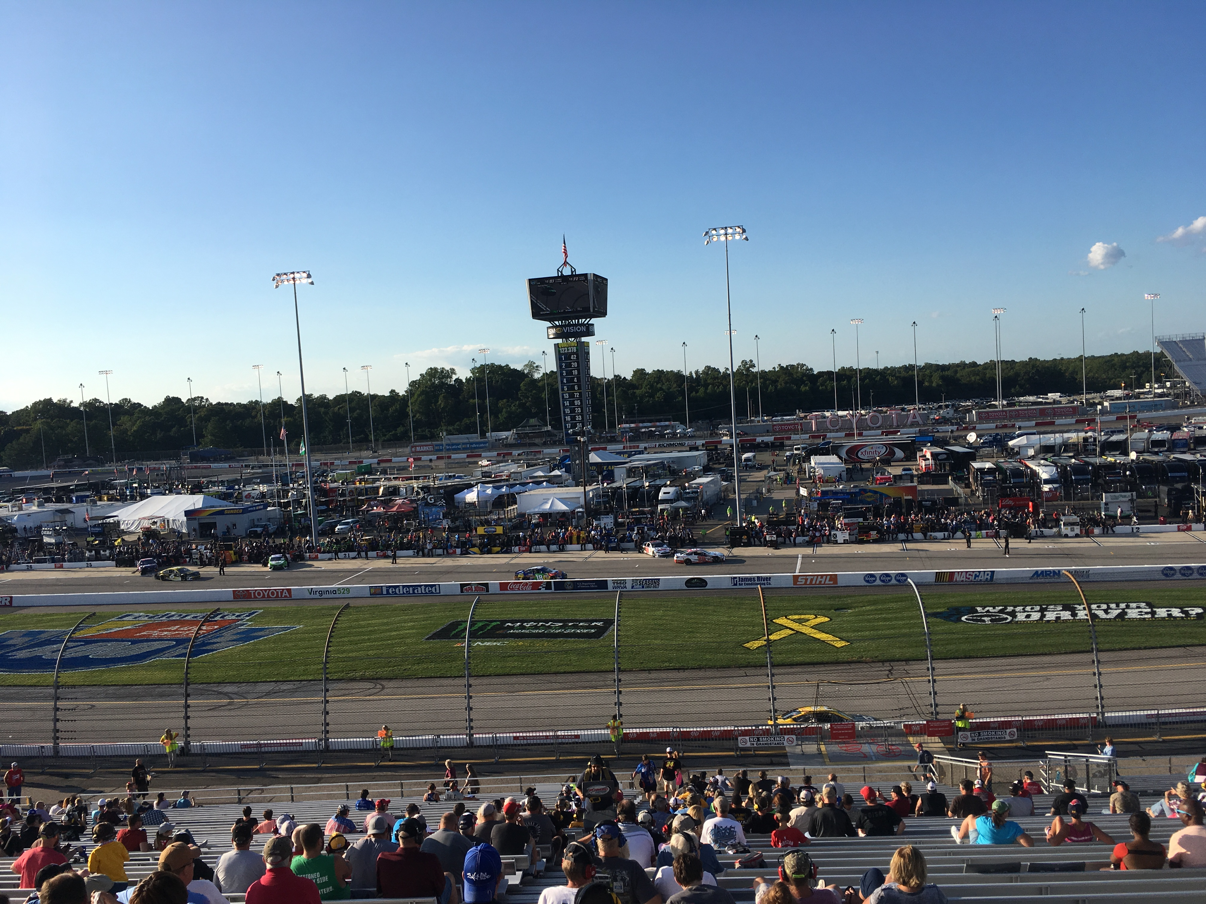 Qualifying for the 2017 Federated Auto Parts 400 at Richmond Raceway viewed from the frontstretch. Matt Kenseth (#20), Kyle Busch (#18), and Trevor Bayne (#6) drive by on pit road while Landon Cassill (#34) drives by on the track.